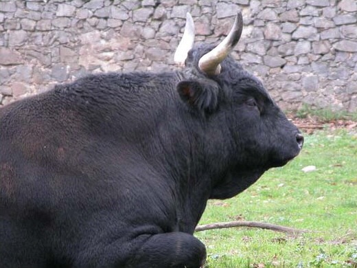 Bos taurus taurus, Heck cattle or Heckrind. This hardy breed of cattle ist the result of the efforts to reconstruct the extinct aurochs Bos taurus primigenius